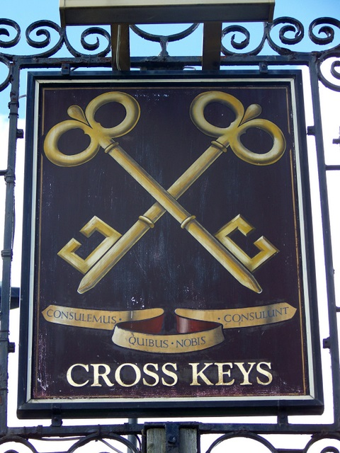 Sign for the Cross Keys A common sign in Christian heraldry, referring to St Peter, to whom Jesus said: 'I will give unto thee the keys of the kingdom of heaven'. The papal arms show show crossed keys, and they occur again in the arms of various bishops.